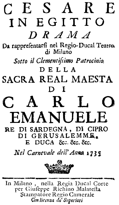 Geminiano Giacomelli - Cesare in Egitto - titlepage of the libretto - Milan 1735